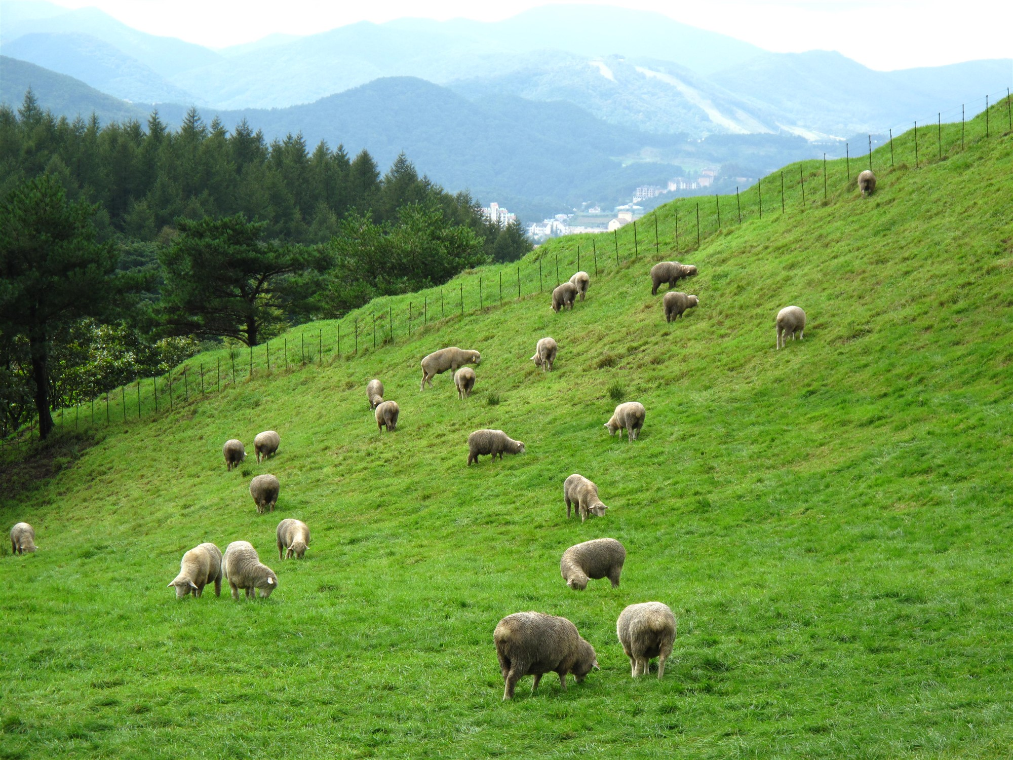 Hillside sheep in Daegwallyeong, near Pyeongchang, South Korea